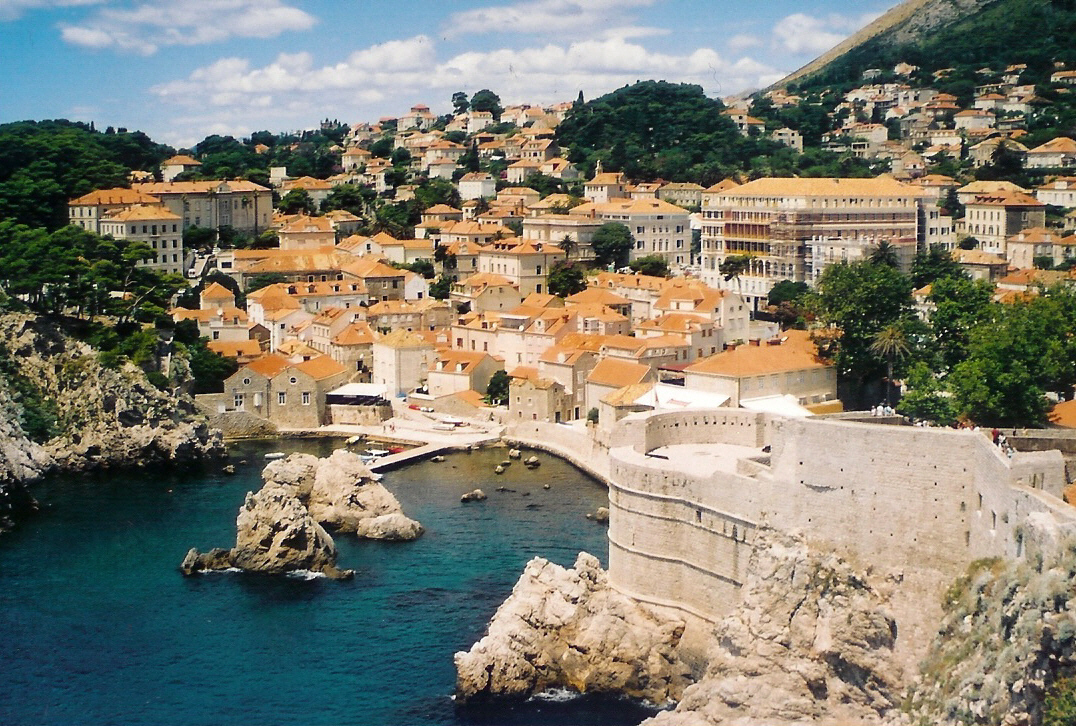 Dubrovnik, view from ocean